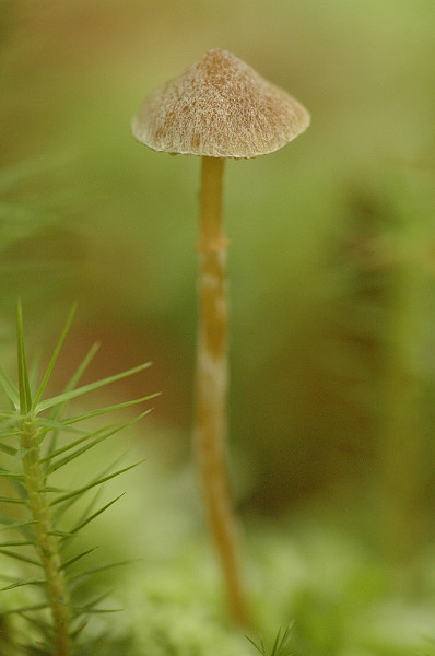 Psathyrella sphagnicola from Commanster, Belgium. If you think this is a different taxon, please contact James Lindsey.